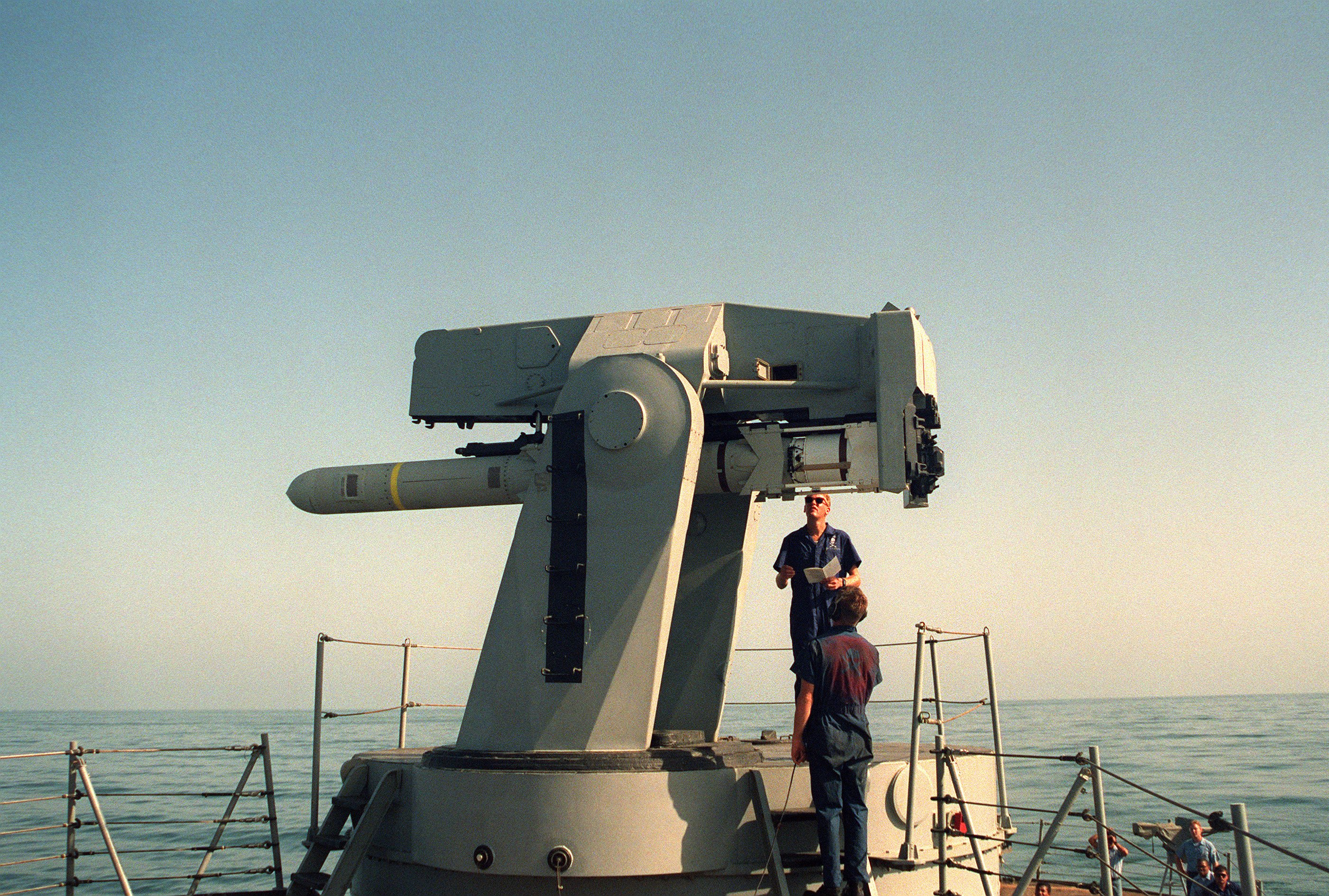 U.S. Navy Gunner's Mate 2nd Class Greenwood and Gunner's Mate 2nd Class Lawlor inspect an RGM-84A Harpoon missile in a Mark 13 launcher aboard the guided missile destroyer USS Goldsborough (DDG-20) in the Gulf Of Oman on 1 October 1990, during "Operation Desert Shield".